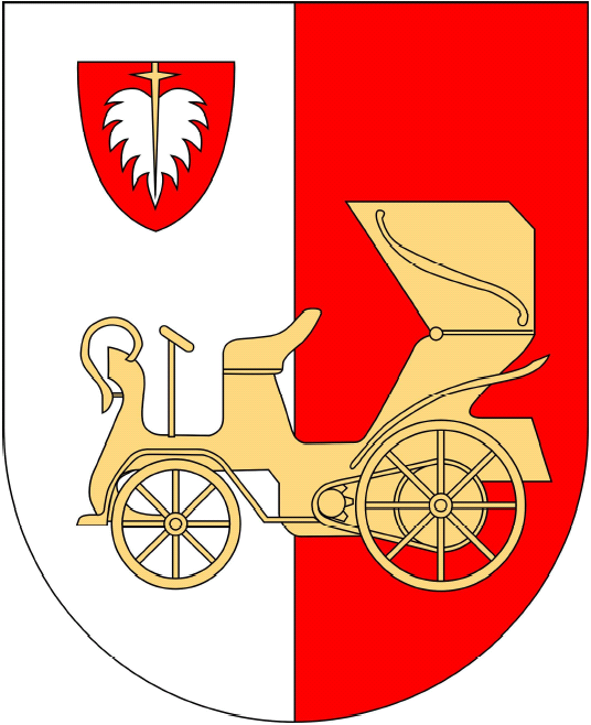 Municipal coat of arms of Kopřivnice town, Nový Jičín District, Czech Republic.